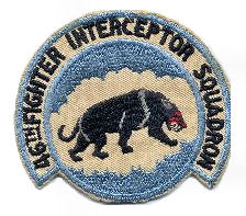 Emblem of the USAF 46th Fighter-Interceptor Squadron